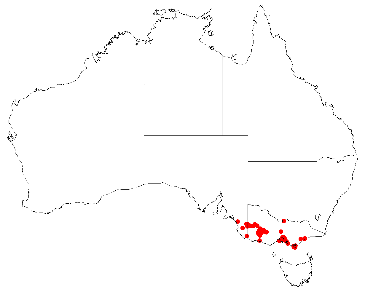 Allocasuarina paradoxa occurrence data from Australasian Virtual Herbarium downloaded 4 July 2018